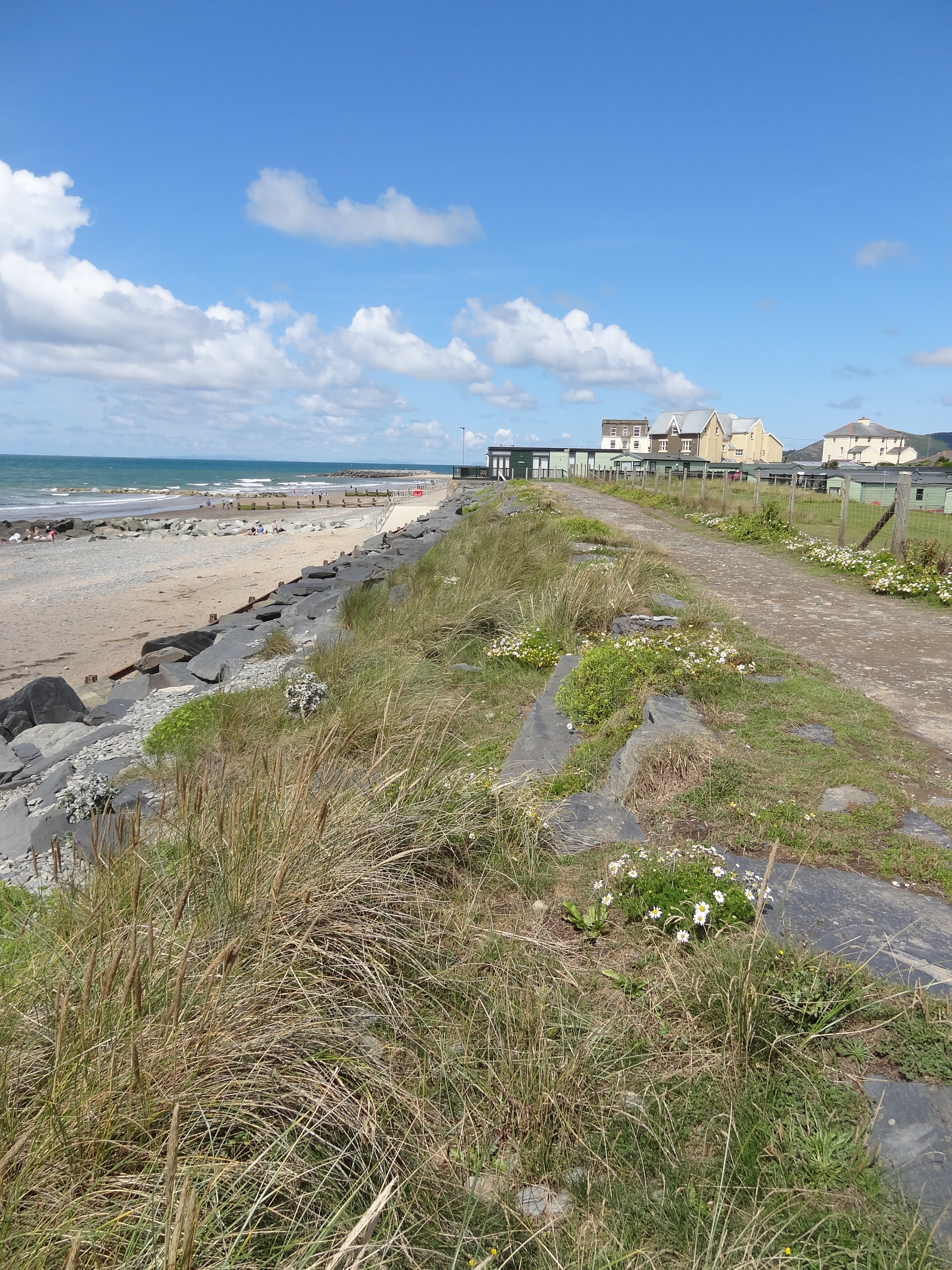 The tide barrier south of Tywyn